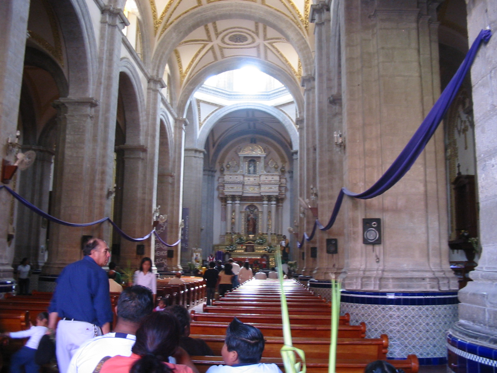 Interior of town church in Chalco de Diaz Corvarrubias.